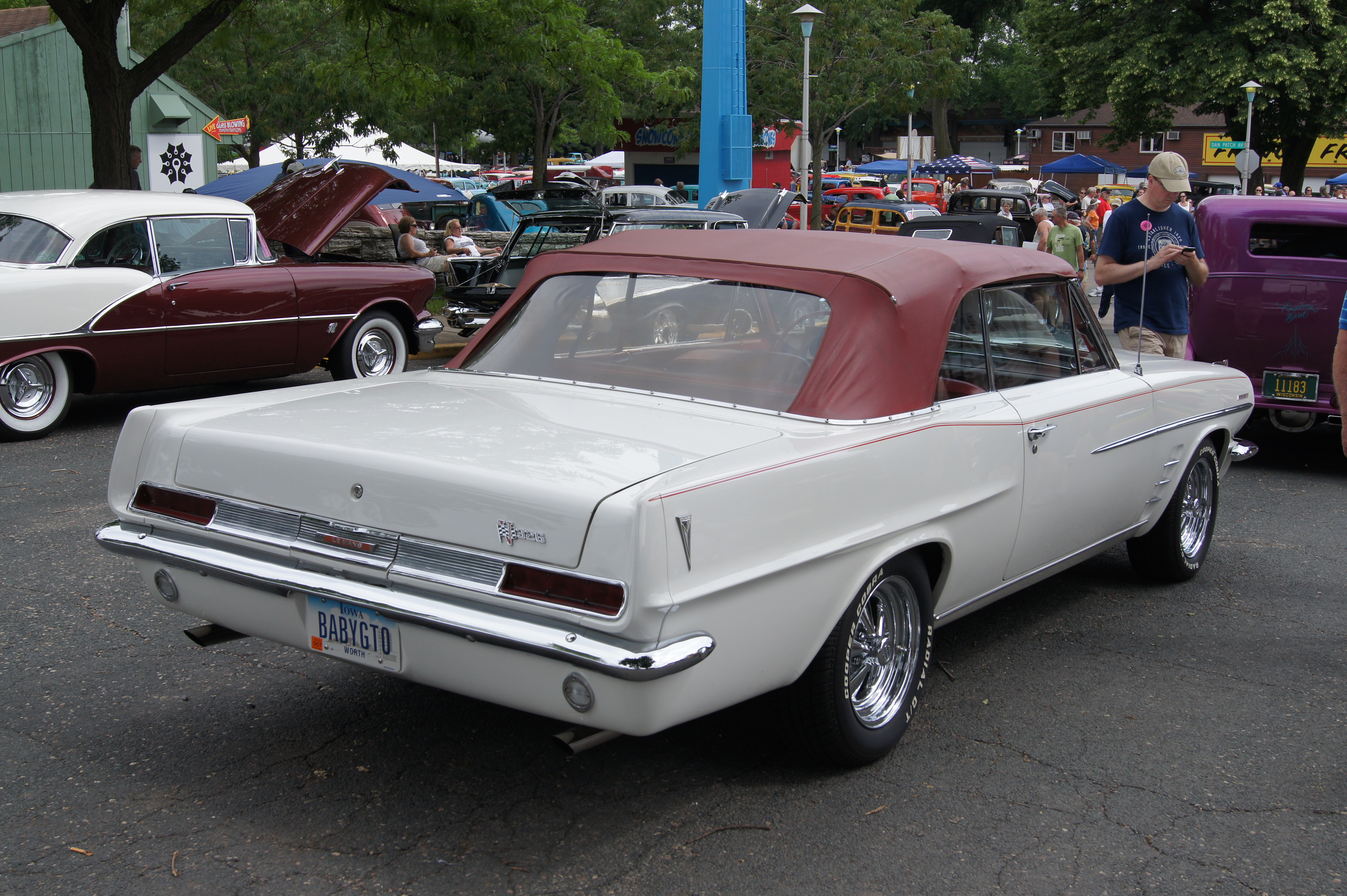 MSRA “BACK TO THE 50′s” 40th ANNIVERSARY June 21-23, 2013 State Fairgrounds St. Paul Minnesota More Car Pictures